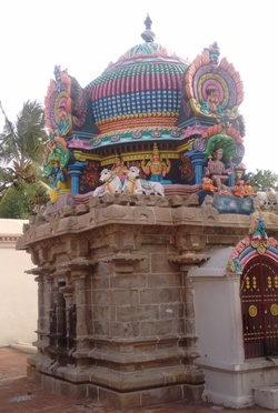 Sakkottaiamirthakalasanathartemple சாக்கோட்டை அமிர்தகலேசுவரர் கோயில்